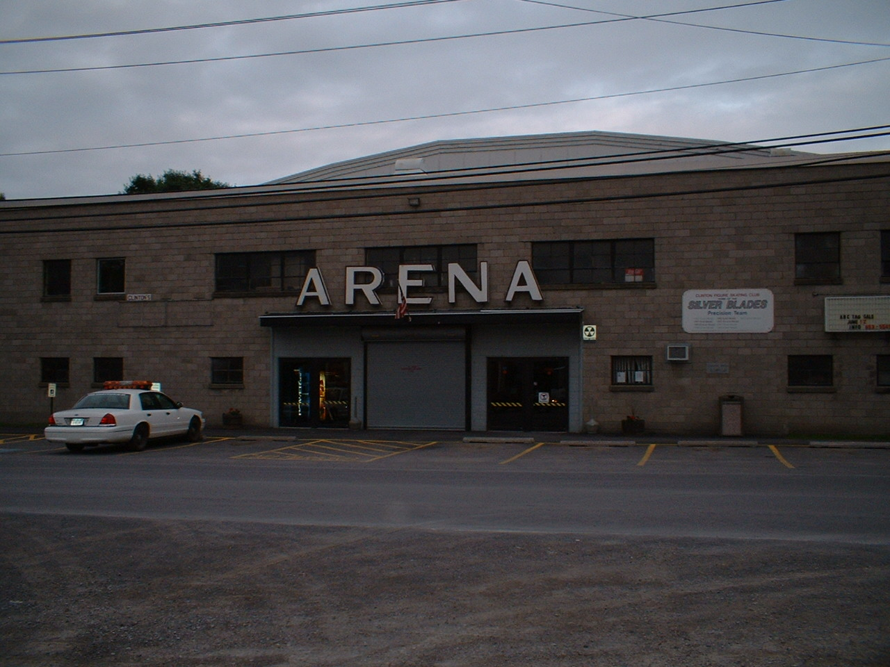 Photograph of the Clinton Arena, Clinton, New York